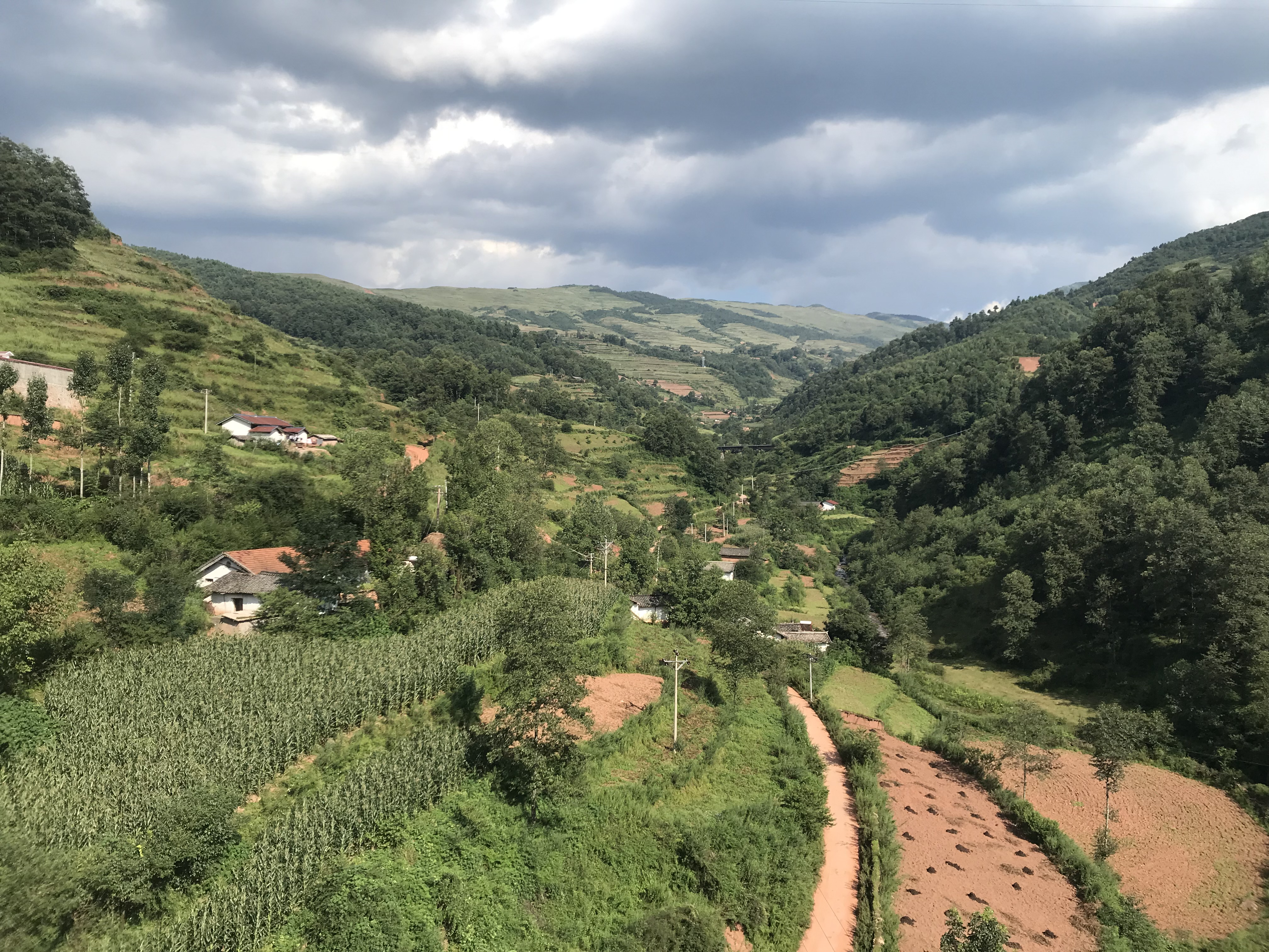 201908 Villages in Lewu, Xide County